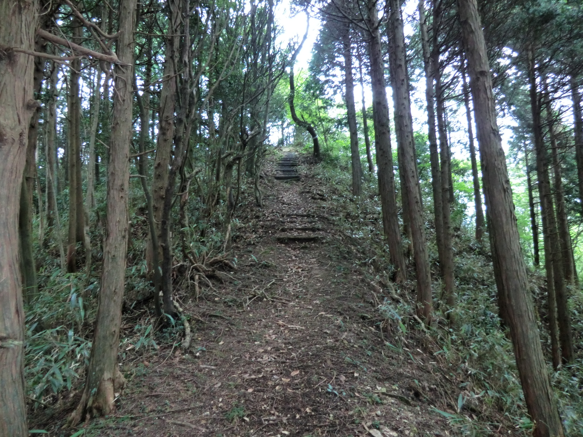 Anraku Pass between Koka city and Kameyama city